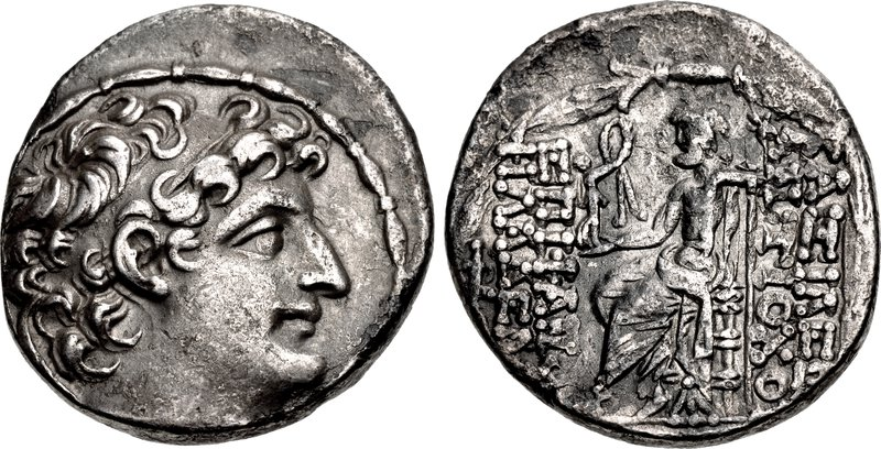 From the website: Ex Kern and Houghton Collections CNG 109, Lot: 348. Estimate $5000. Sold for $9500. This amount does not include the buyer’s fee. SELEUKID EMPIRE. Antiochos XI Epiphanes Philadelphos. Circa 94/3 BC. AR Tetradrachm (26mm, 14.48 g, 12h). Antioch on the Orontes mint. Diademed head right within fillet border / BAΣIΛEΩ[Σ] ANTIOXO[V] EΠIΦAN[OVΣ] ΦIΛAΔEΛ[ΦOV], Zeus Nikephoros seated left; to outer left, monogram above [A]; monogram below throne; all within laurel wreath. SC 2441 (this coin referenced); HGC 9, 1299; CSE 388 (this coin). VF, toned, slight porosity, off center on reverse. Very rare. From the MNL Collection, purchased from Jonathan Kern, August 2011. Ex Arthur Houghton Collection, purchased from Numismatic Fine Arts, December 1977.